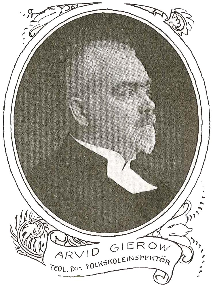 Arvid Gierow (1873-1944), Swedish theologian, clergyman and educator.